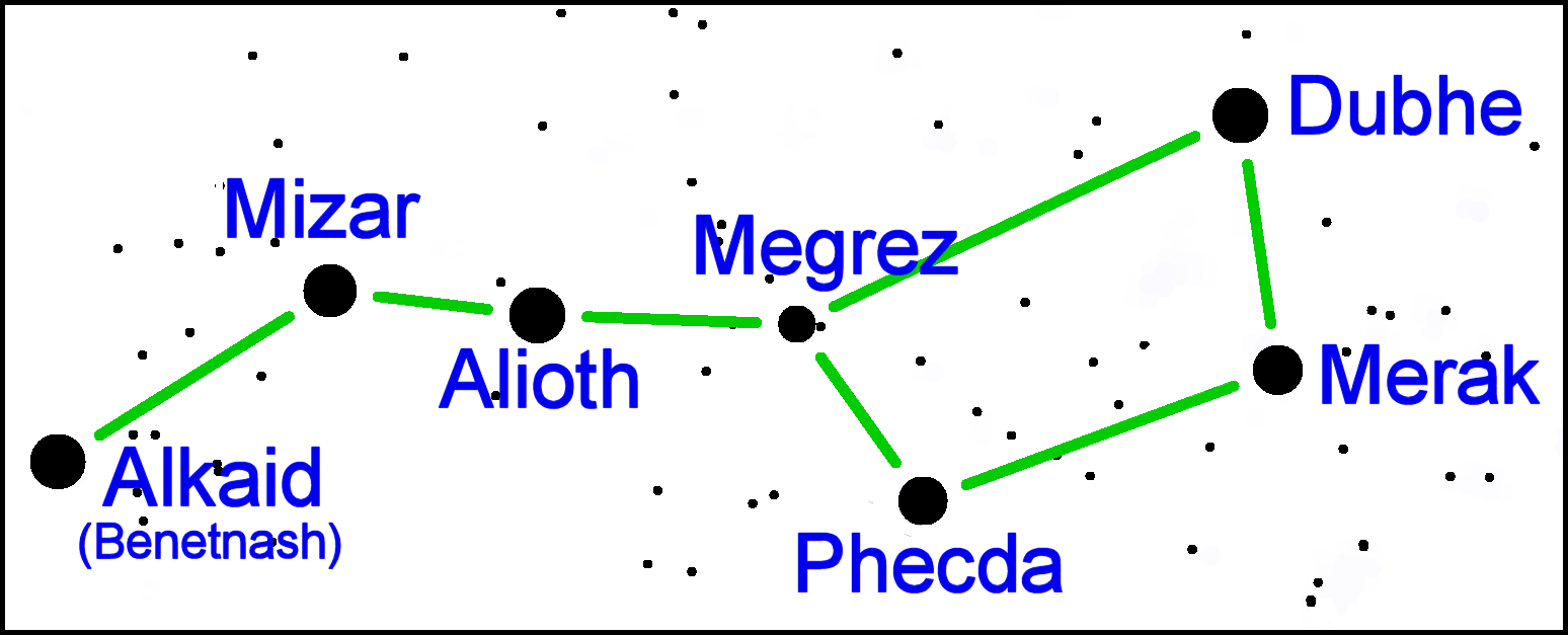 Based on Image:Ursa major star name.png. --Ante Perkovic 06:18, 25 October 2006 (UTC)